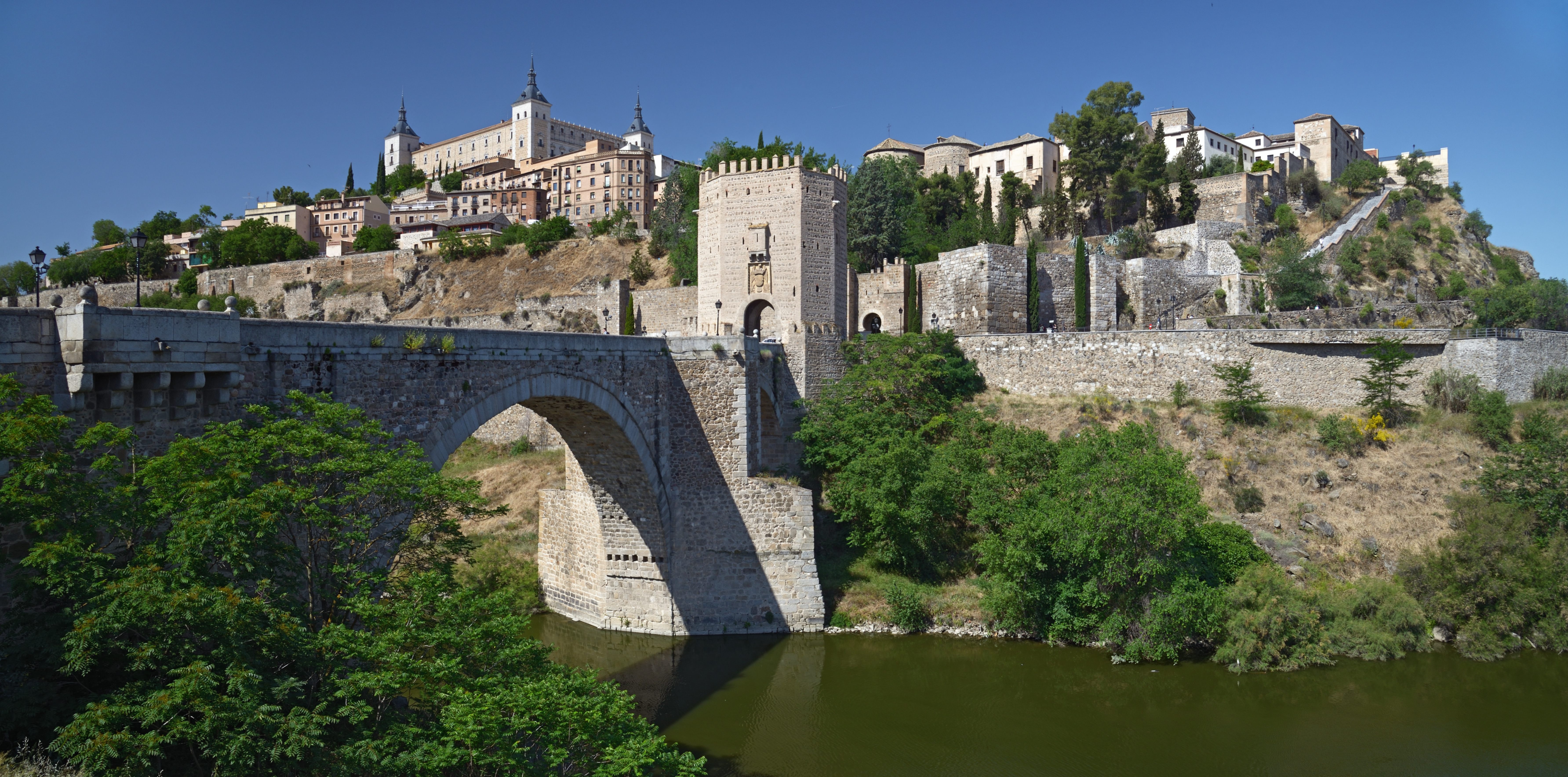 Alcantara Bridge and Alcázar. Toledo, Spain. View from the northeast